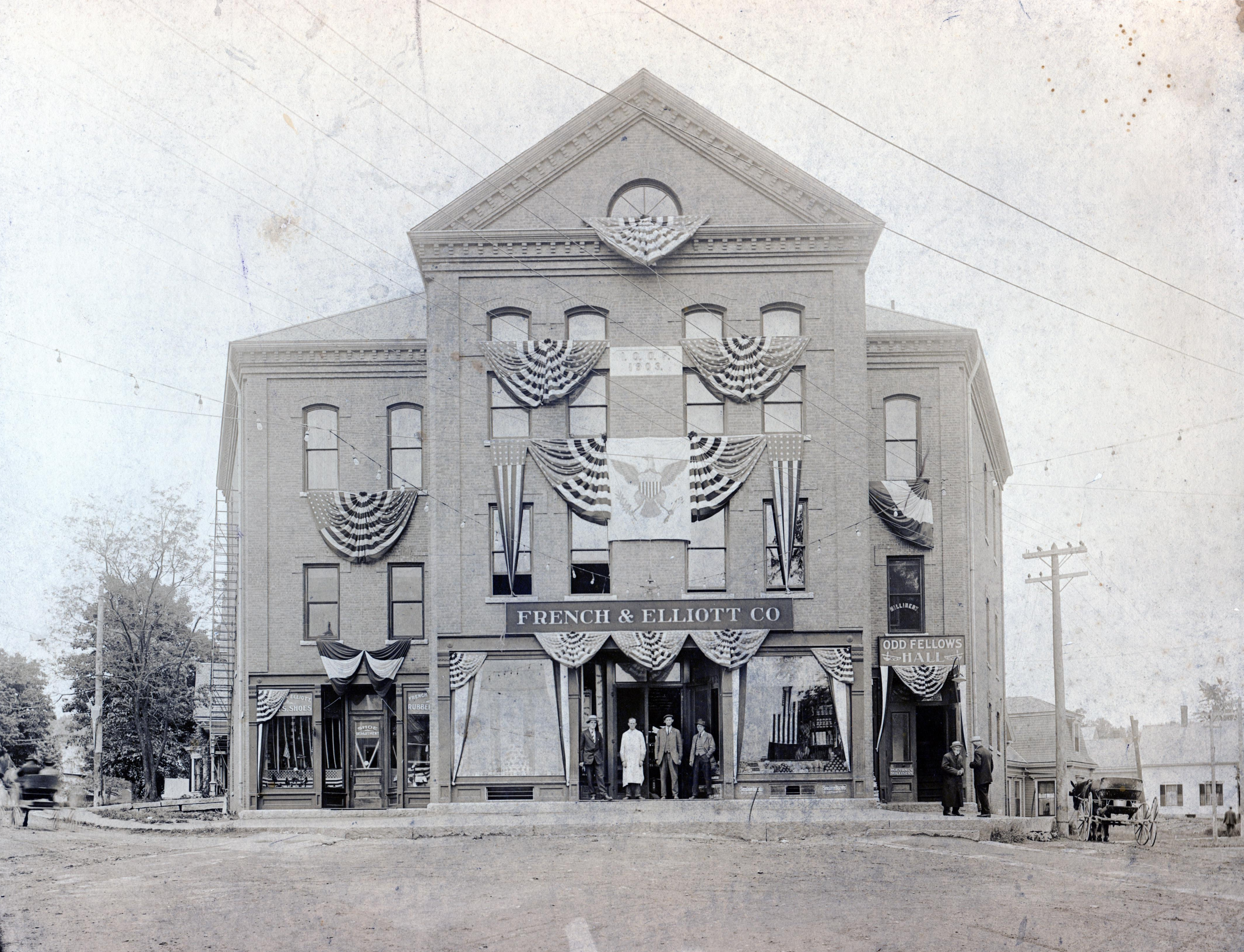 This building in Guilford, Maine, housed the French & Elliott Company, the Masonic Hall and the Odd Fellows Hall. The structure was razed in 2000 to make way for a RiteAid drug store. Retouched by MarmadukePercy